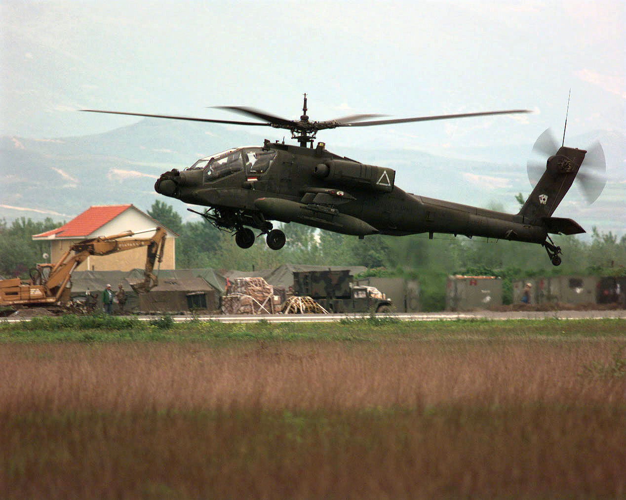 A U.S. Army AH-64A Apache attack helicopter from Task Force Hawk comes in for a landing at Rinas Airport in Tirana, Albania, on April 21, 1999. The Task Force Hawk helicopters are deploying to Tirana in support of NATO Operation Allied Force. Operation Allied Force is the air operation against targets in the Federal Republic of Yugoslavia.